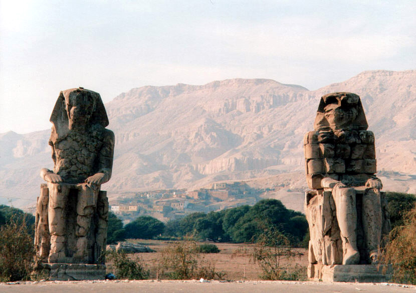 The Colossi of Memnon, Luxor (Westbank), Egypt